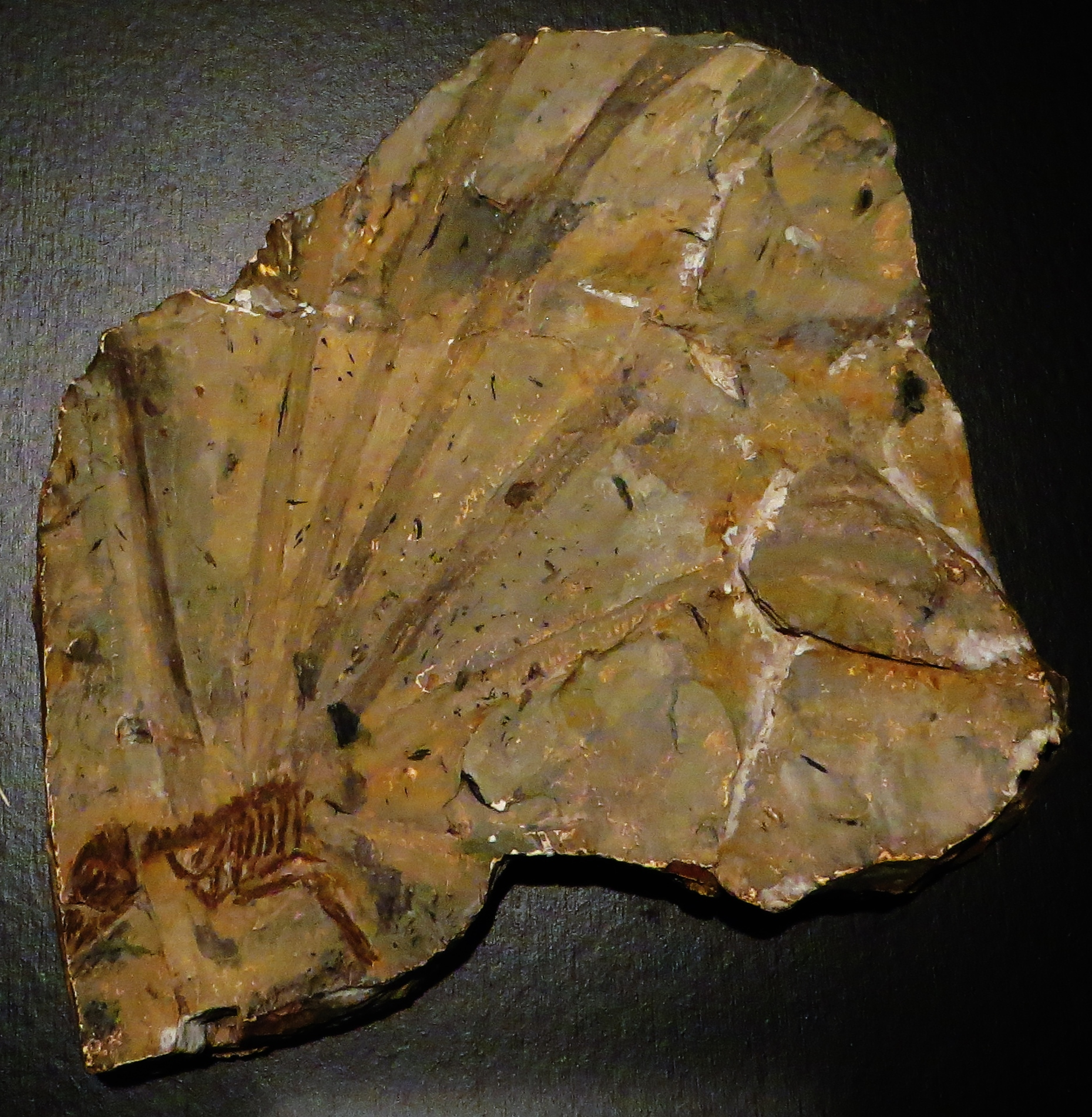 (A copy? of the) holotype Paleontological Institute of the Russian Academy of Science (PIN) 2584/4 of the extinct enigmatic basal diapsid reptile Longisquama insignis Sharov 1970, a skeleton with imprints of long skin appendages of disputed nature, recovered from Upper Triassic lake deposits of Central Asia, on display at the Dinosaurium in Prague.